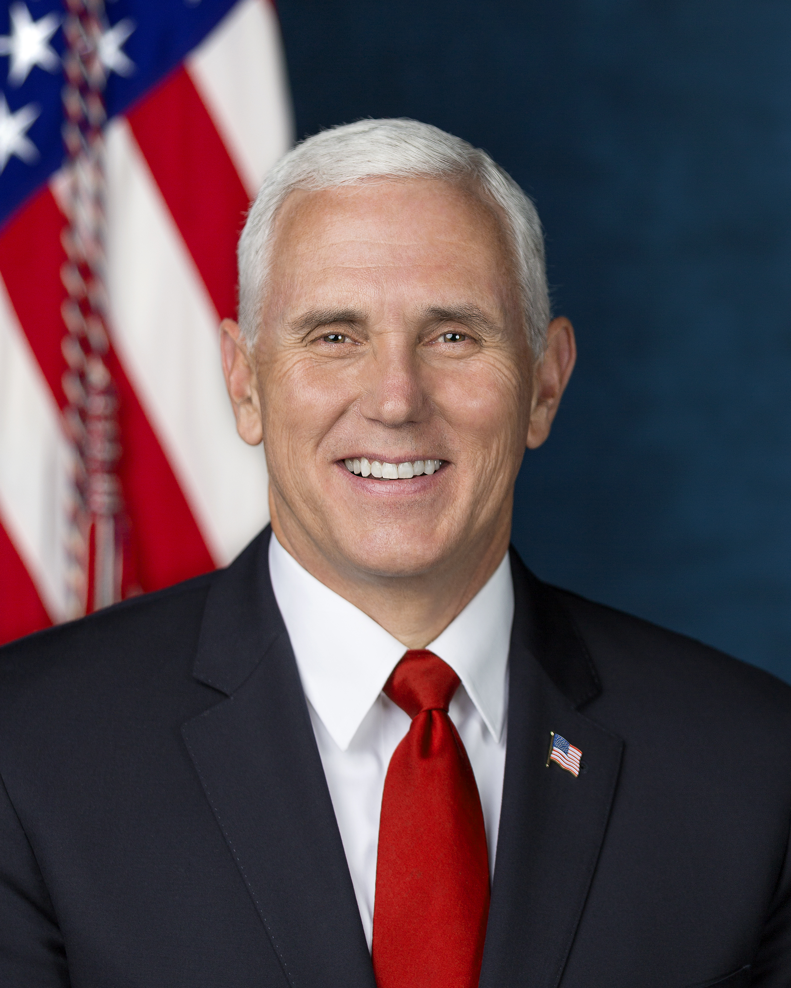 Vice President Michael Pence poses for his official portrait at The White House, in Washington, D.C., on Tuesday, October 24, 2017. (Official White House Photo by D. Myles Cullen)